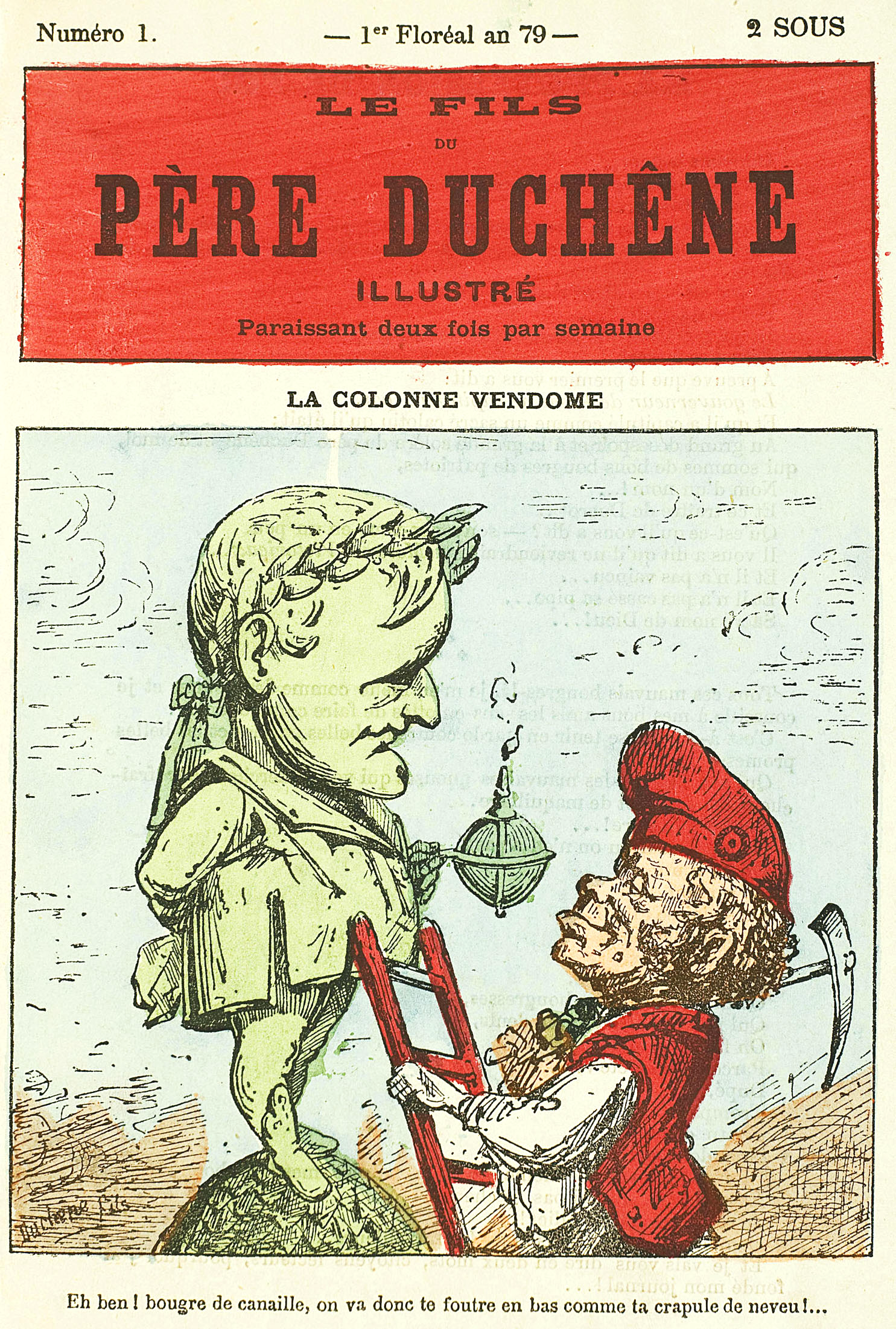 Issue of Pere Duchesne